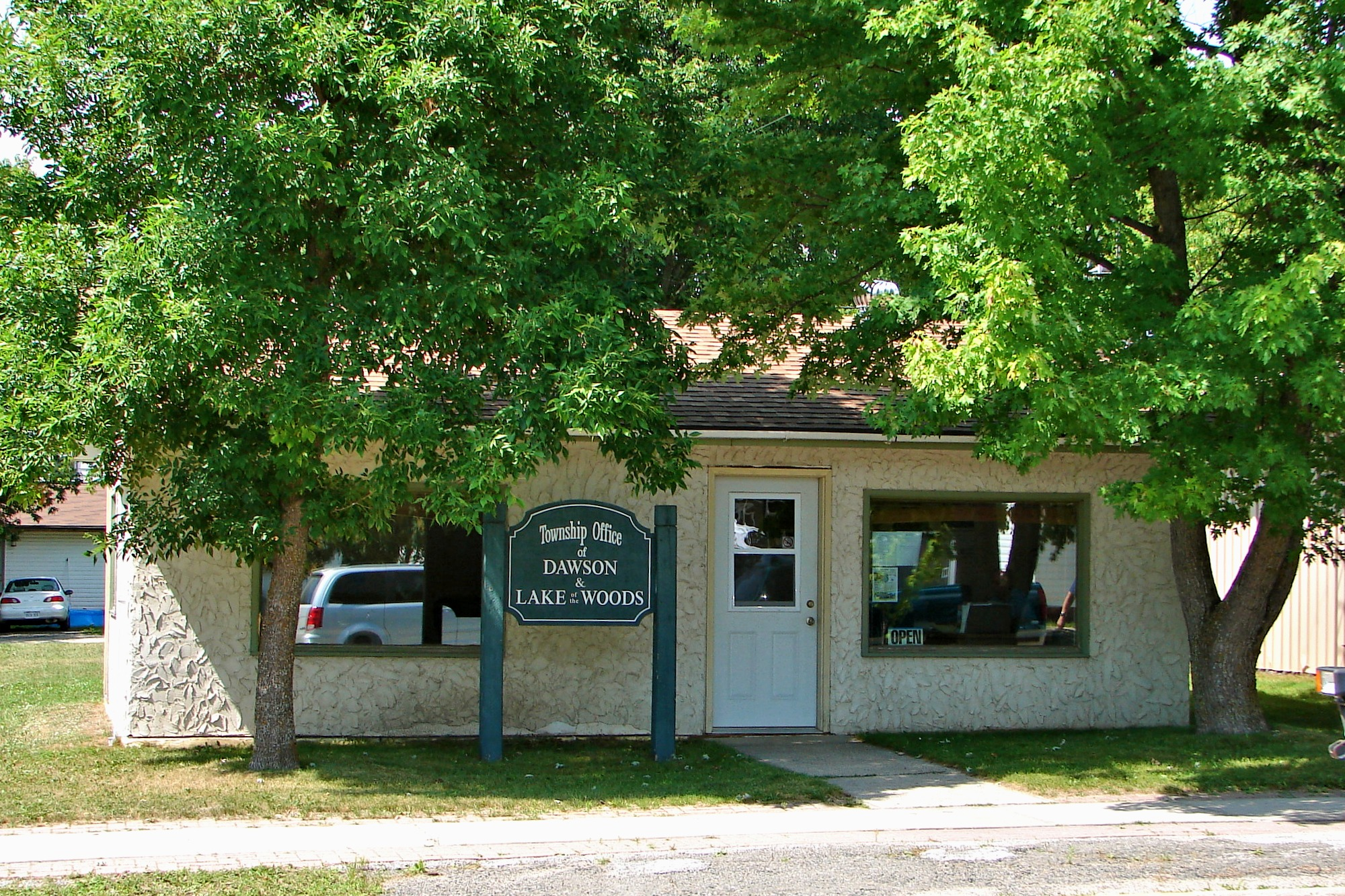 Municipal office of Dawson and Lake-of-the-Woods Townships, Ontario, Canada